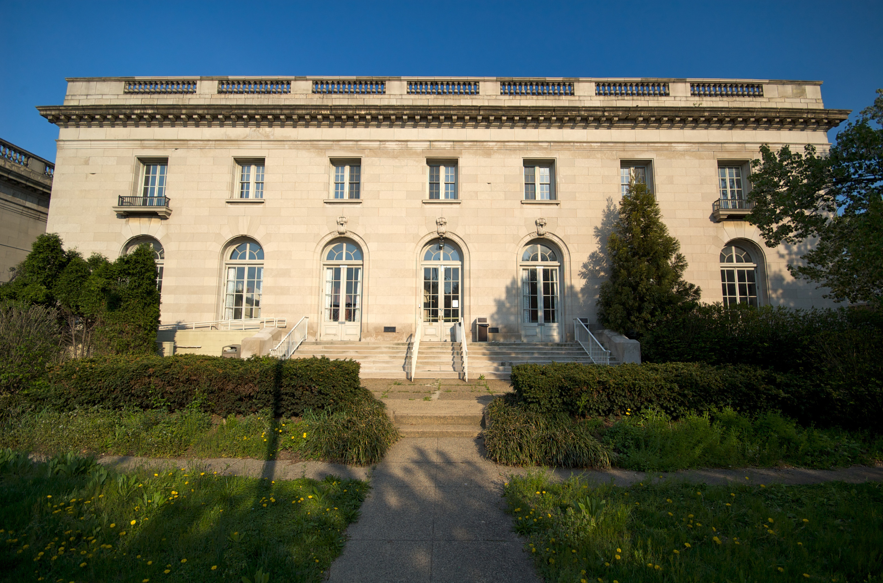 Dropsie University Complex (Center for Advanced Judaic Studies), North Philadelphia, PA